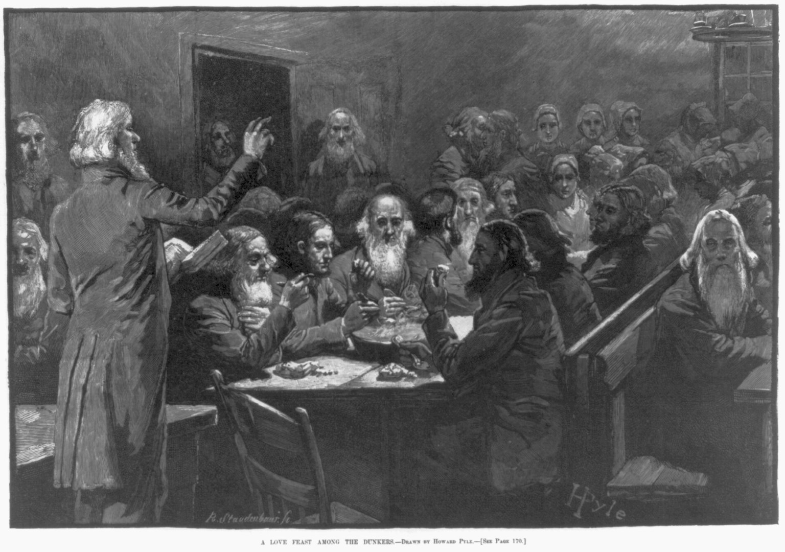 Title: A love feast among the Dunkers Abstract/medium: 1 print : wood engraving.